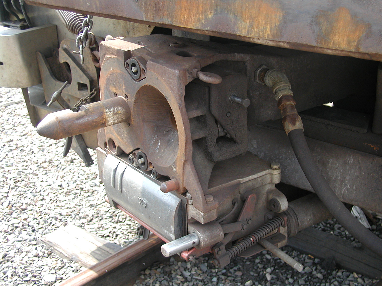 Budd Company pin and cup style coupler designed for the Silverliner fleet and later seen on most Budd company MU cars.